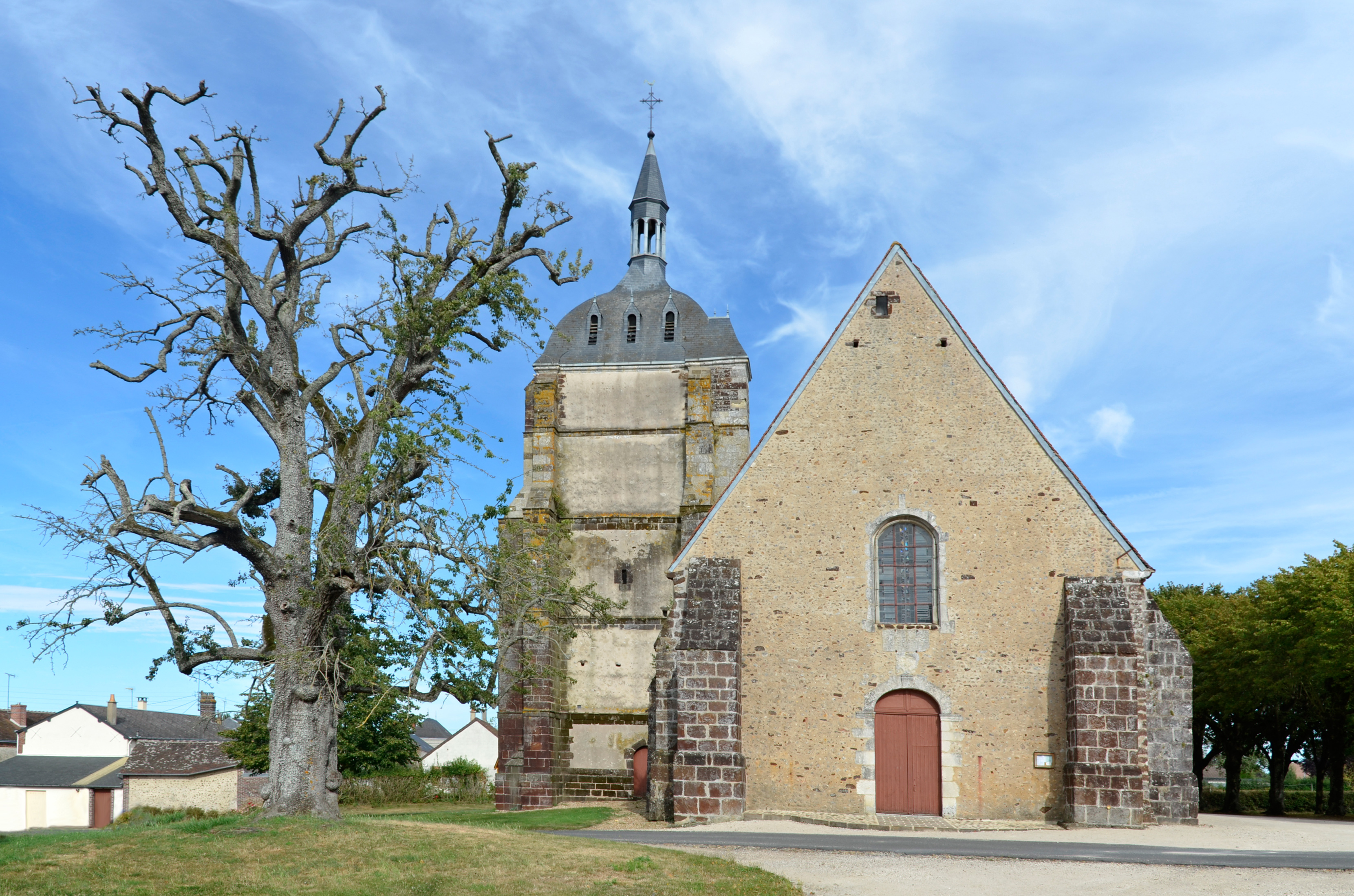 Saint-Clément church - Choue, Loir-et-Cher, France .